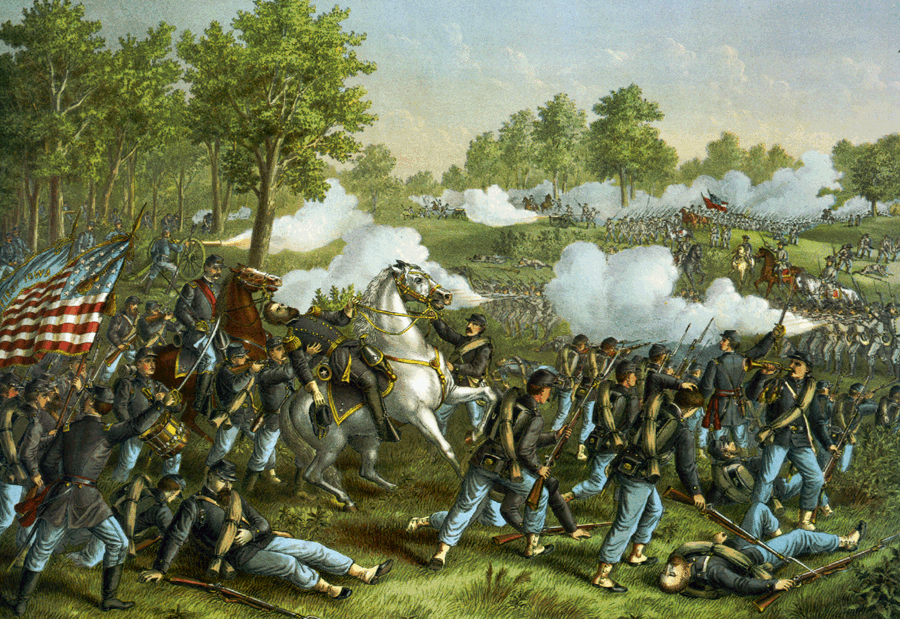 Battle of Wilson's Creek--Aug. 10, 1861--Union (Gen. Lyon) ... Conf. (Gen. McCulloch) ...